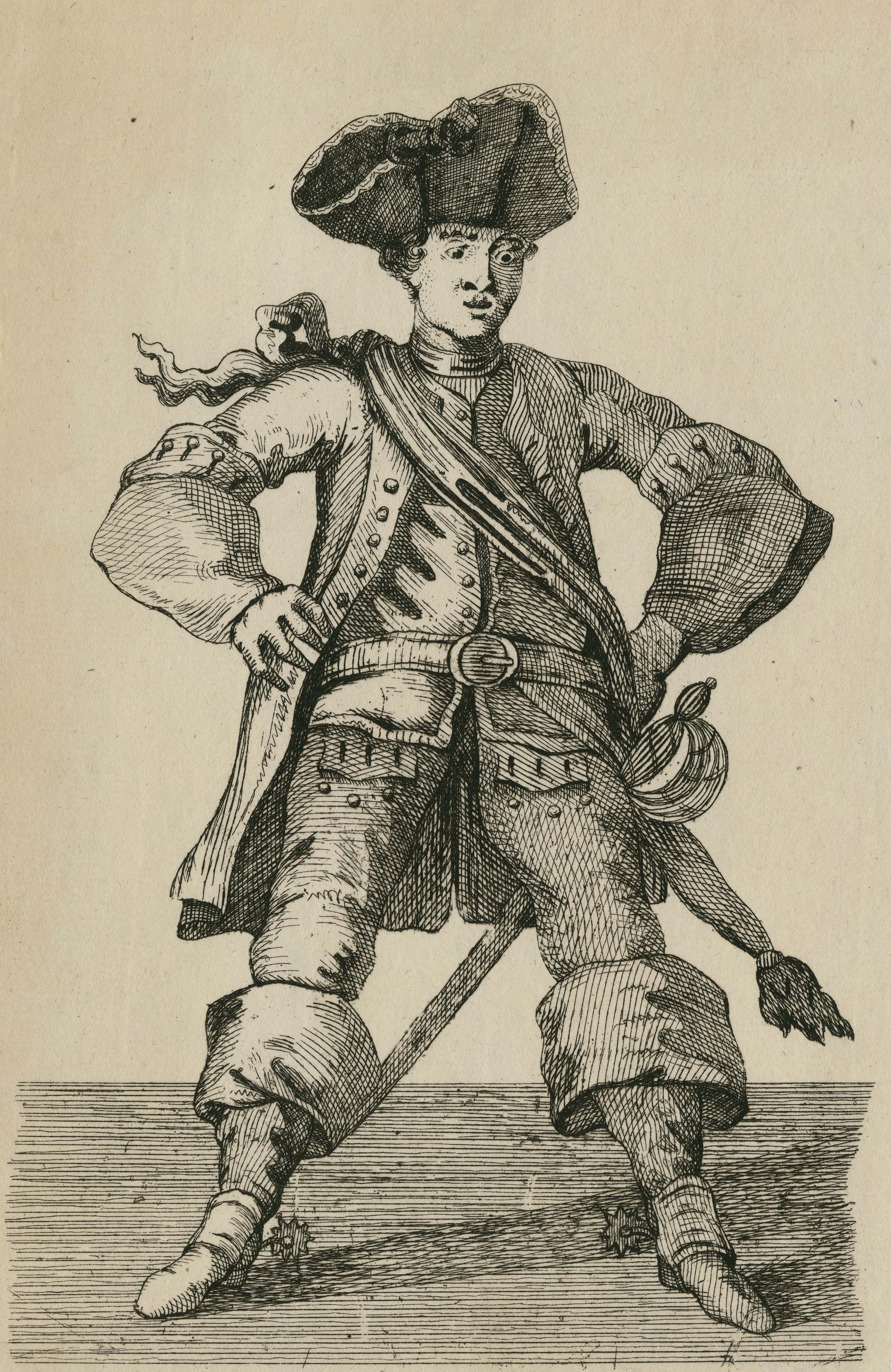 This etching (4.25 x 6.5 inches) of Theophilus Cibber as Ancient Pistol in Shakespeare's Henry V was of John Laguerre's "The Stage Mutiny" etching (1733); a derivative (or the original) was reproduced as a frontispiece for Theophilus Cibber, to David Garrick, Esq; with Dissertations on Theatrical Subjects (1759) printed in London for W. Reeves and J. Phipps.[1]